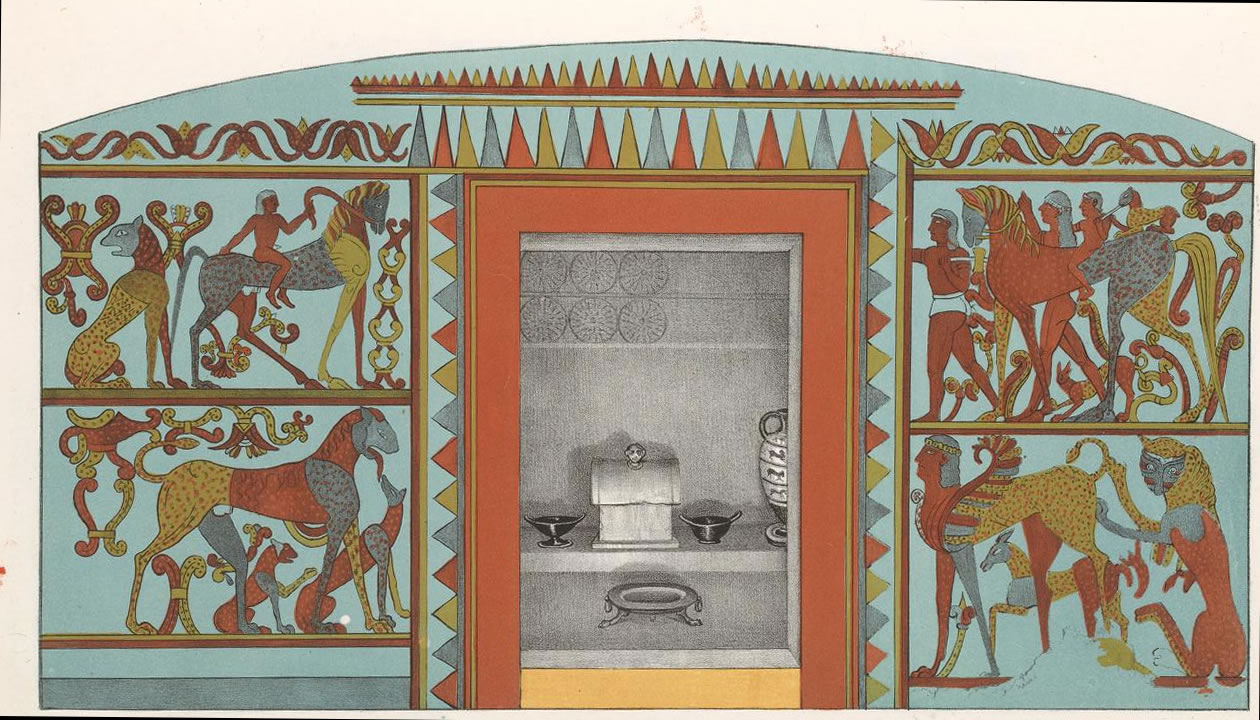 Paintings in the Campana tomb. Veji, about 600 BC.